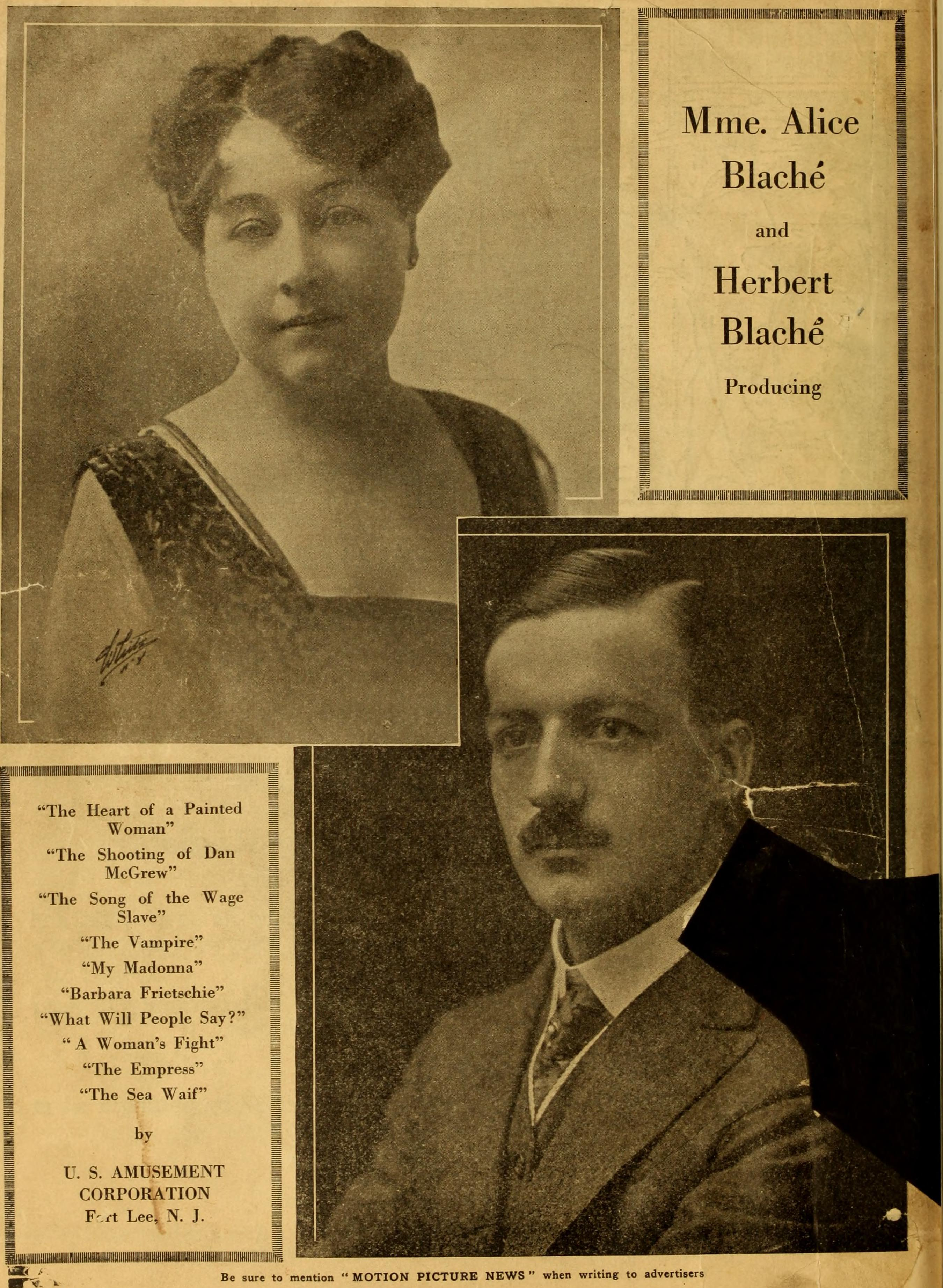 Title: Motion Picture Studio Directory and Trade Annual (1916) Year: 1916 (1910s) Authors: Motion Picture News, Inc. Subjects: Motion Pictures Film Industry Yearbook nyarc-museumofmodernart Publisher: New York, Motion Picture News, Inc. Text Appearing Before Image: 274 MOTION PICTURE NEWS Vol. XIV. No. 16. Section 7 Text Appearing After Image: Be sure to mention MOTION PICTURE NEWS when writing to advertisers OCTH* The Museum of Modern Art 300077 85